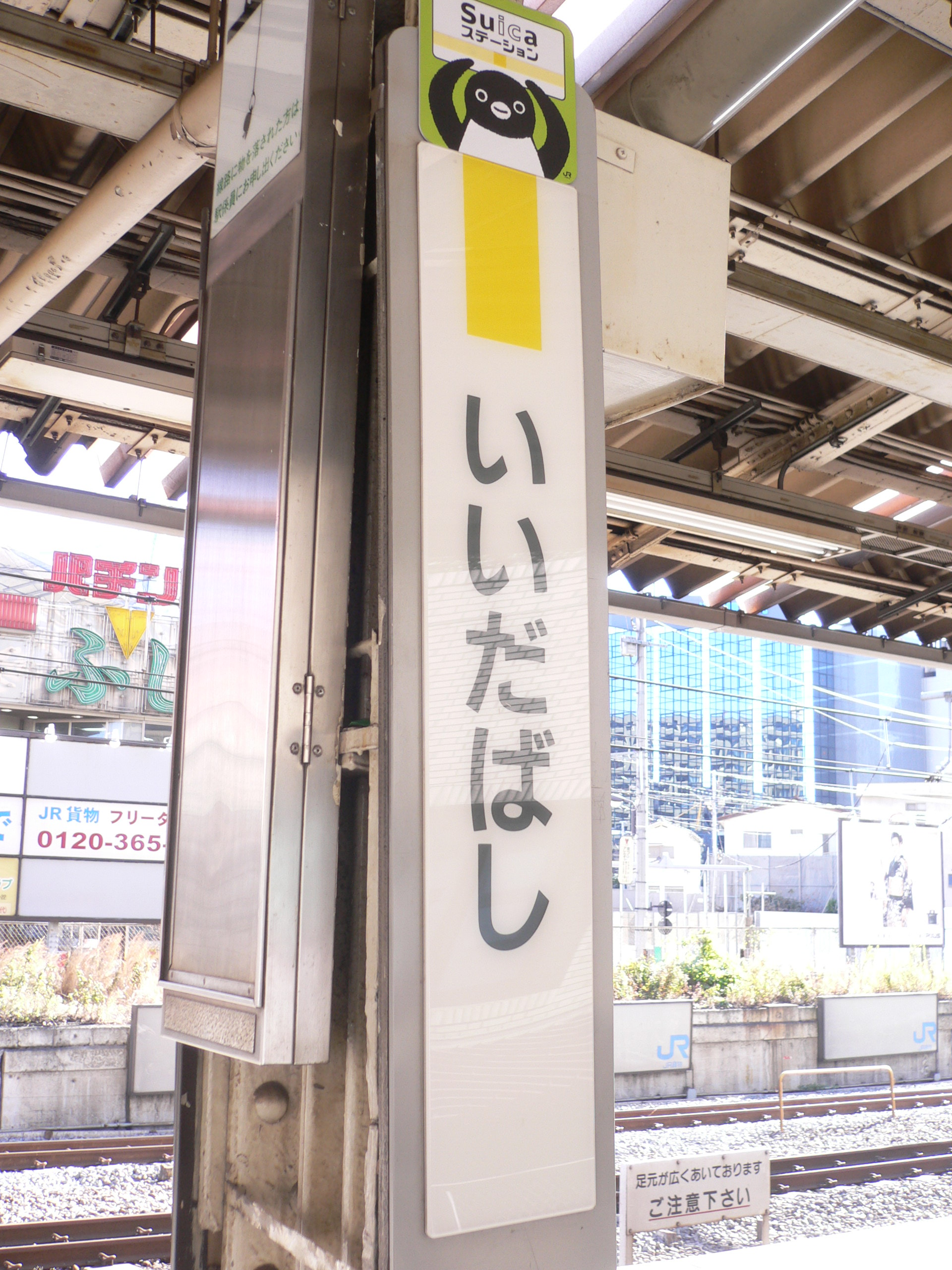 Iidabashi Station (Iidabashi Station), Chiyoda W, Tokyo M.